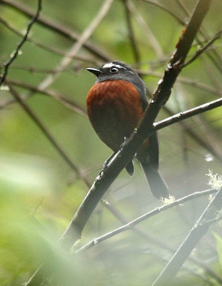 Slaty-backed Chat-tyrant (Ochthoeca cinnamomeiventris) at Old Nono-Mindo Rd, NW Ecuador.